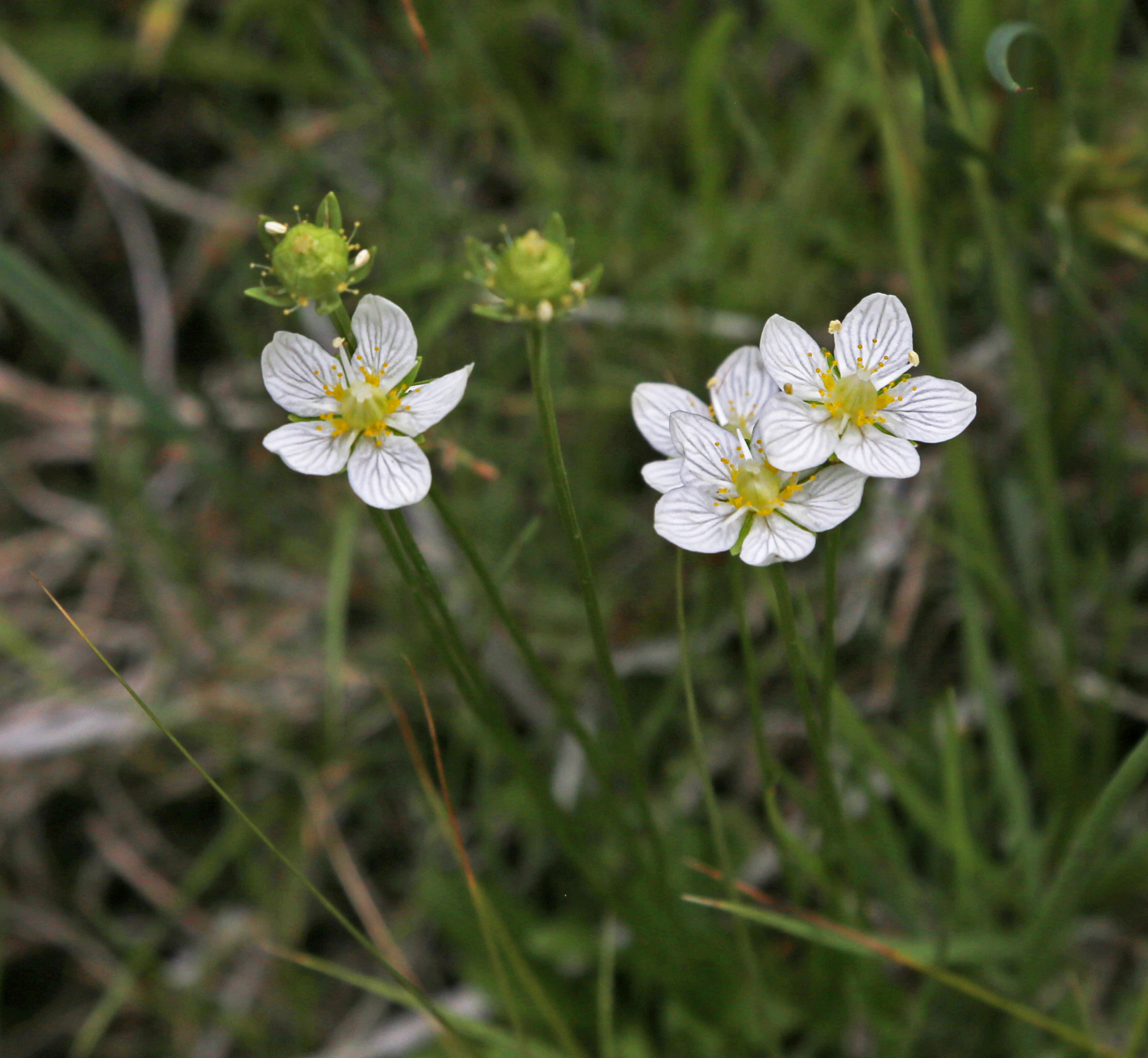 Small-flowered grass-of-parnassus (Parnassia parviflora), group of flowering plants. In meadow near Bishop Creek at 8,500 ft (2,600 m) in Aspendell Caifornia, USA.